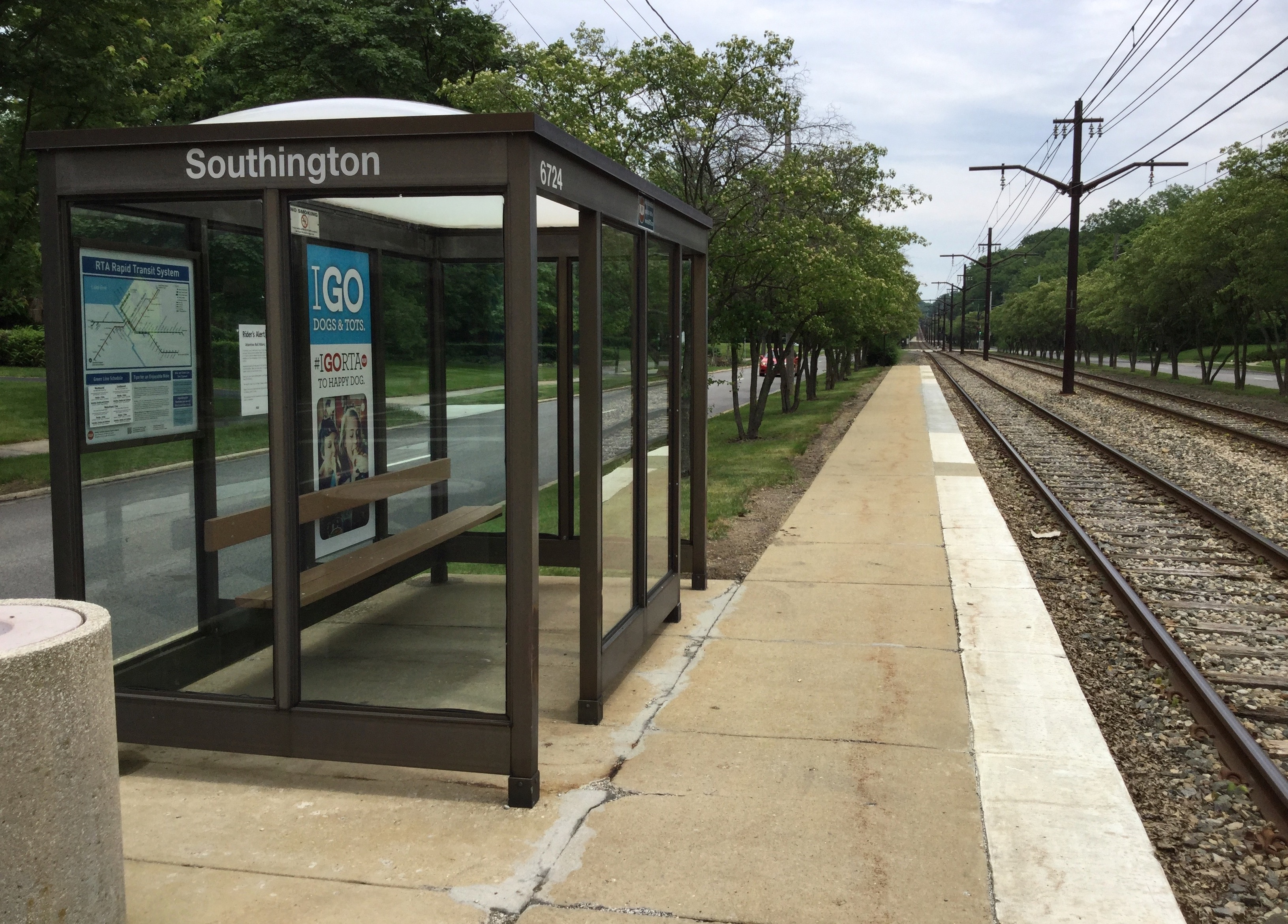 RTA station